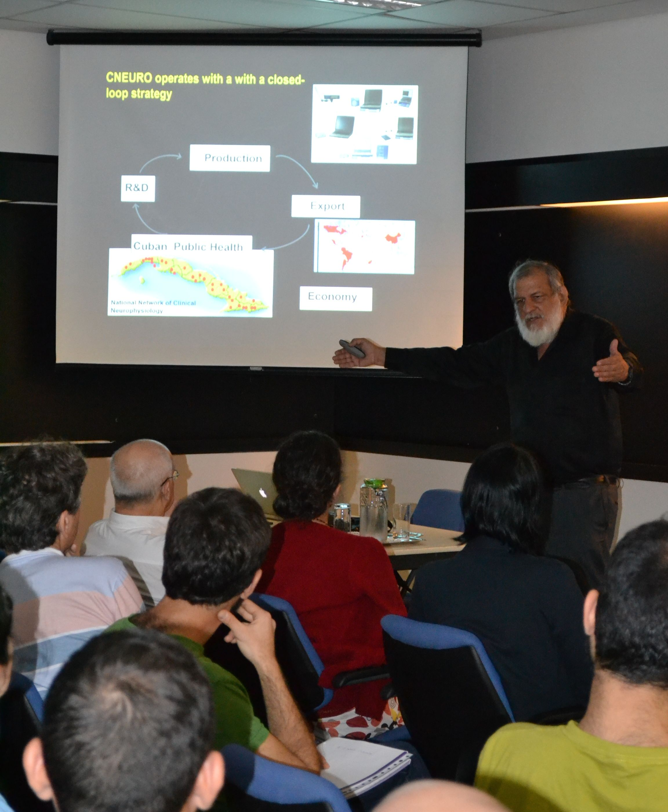 Prof. Pedro Antonio Valdés-Sosa in a talk at the Research, Innovation and Dissemination Center for Neuromathematics (NeuroMat), in São Paulo, Brazil, in March, 2015.